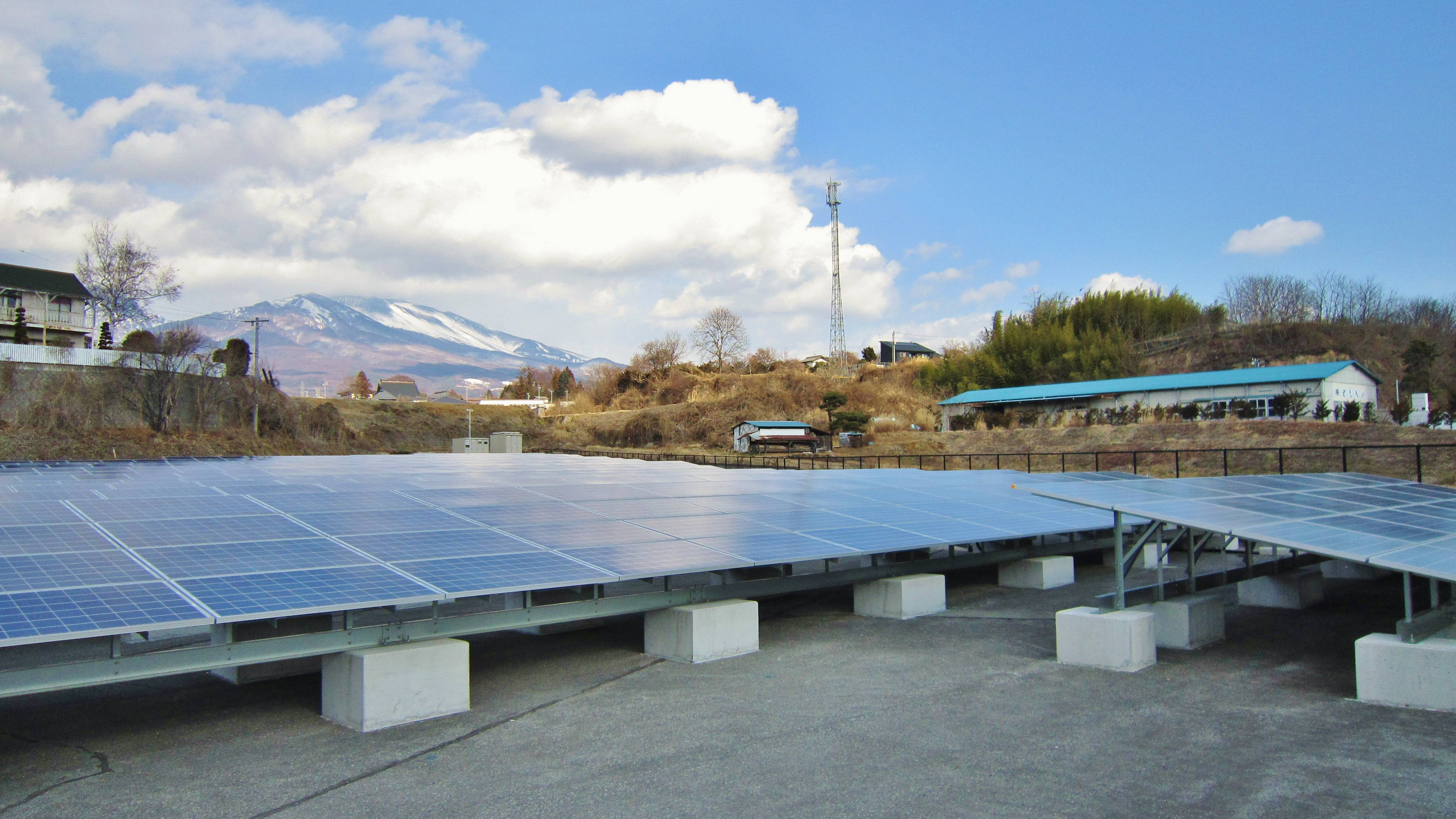 Amenities photovoltaic power station (Komoro, Nagano).